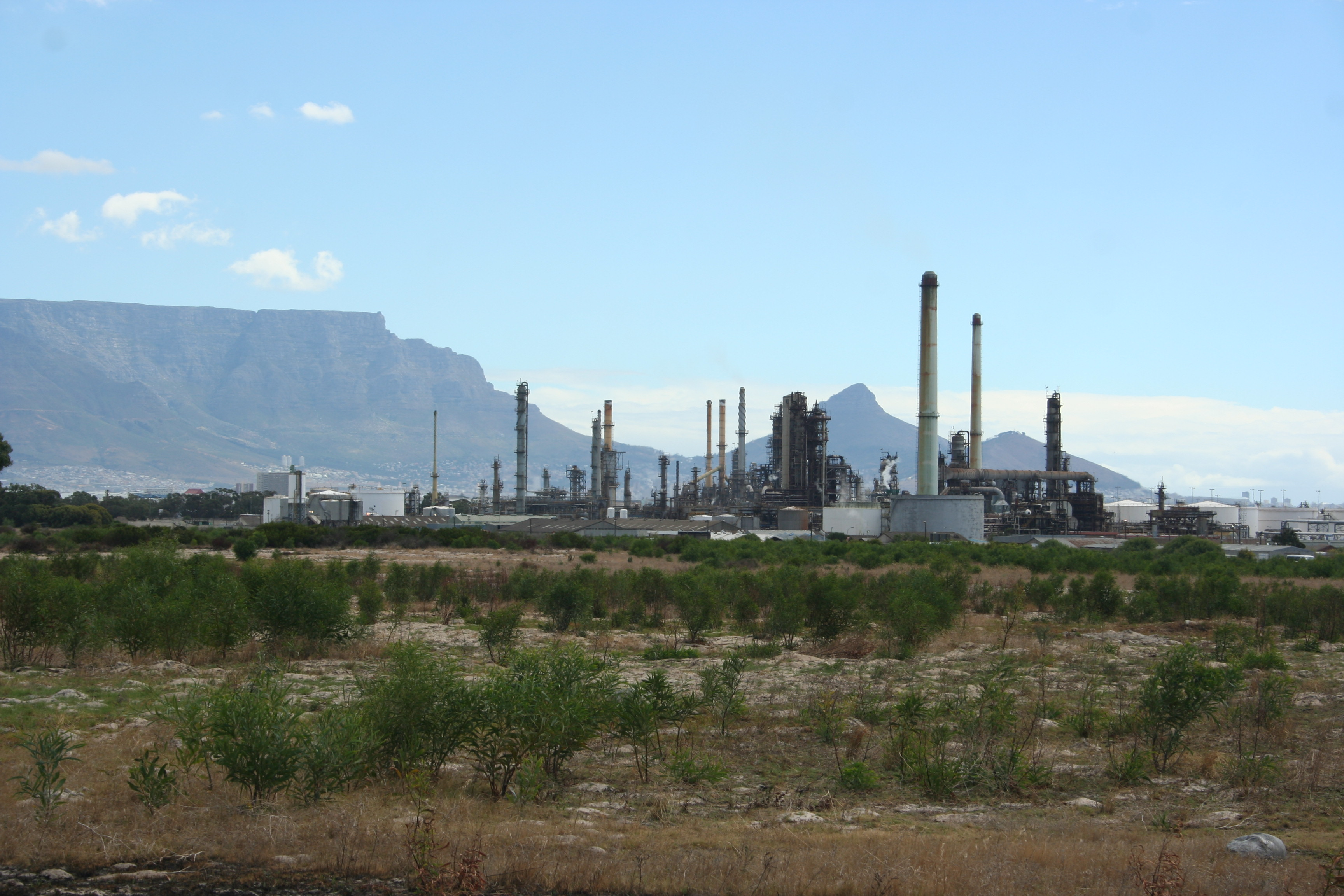 Chevron Oil Refinery (previously known as the Caltex Refinery) in Cape Town, South Africa. Table Mountain is pictured in the distant background.